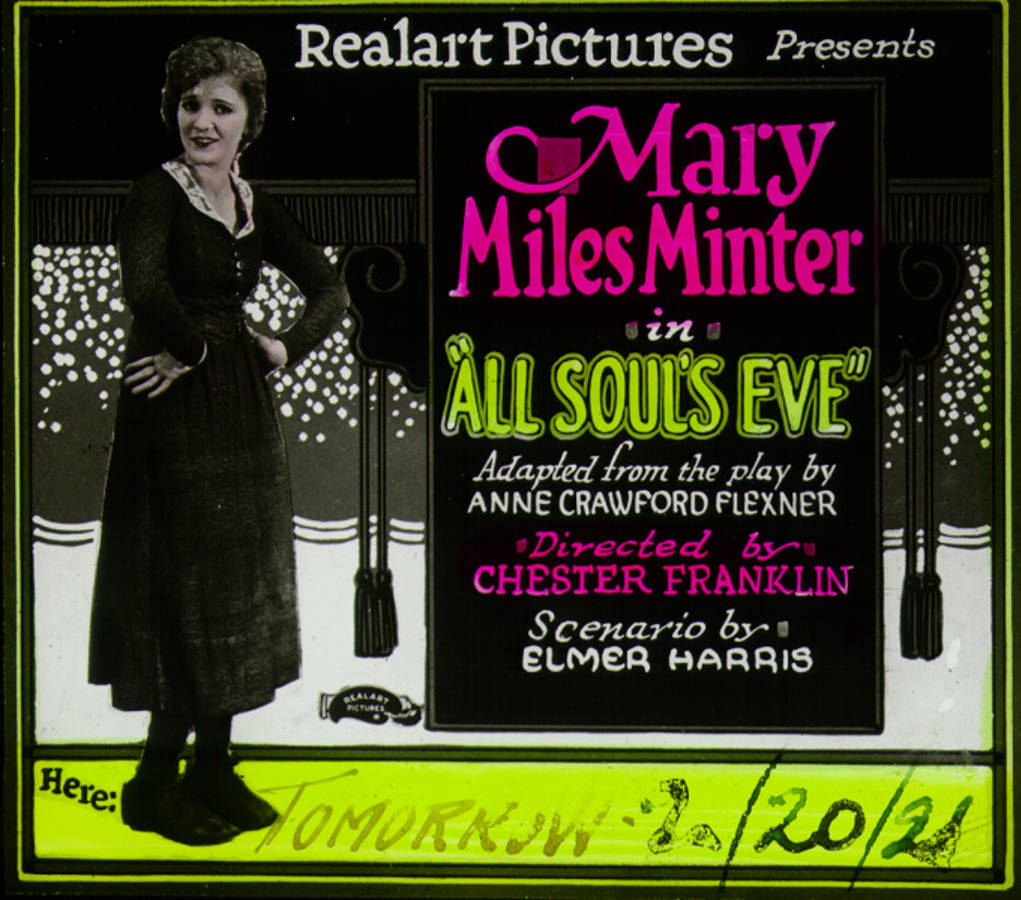 All Soul's Eve lantern slide